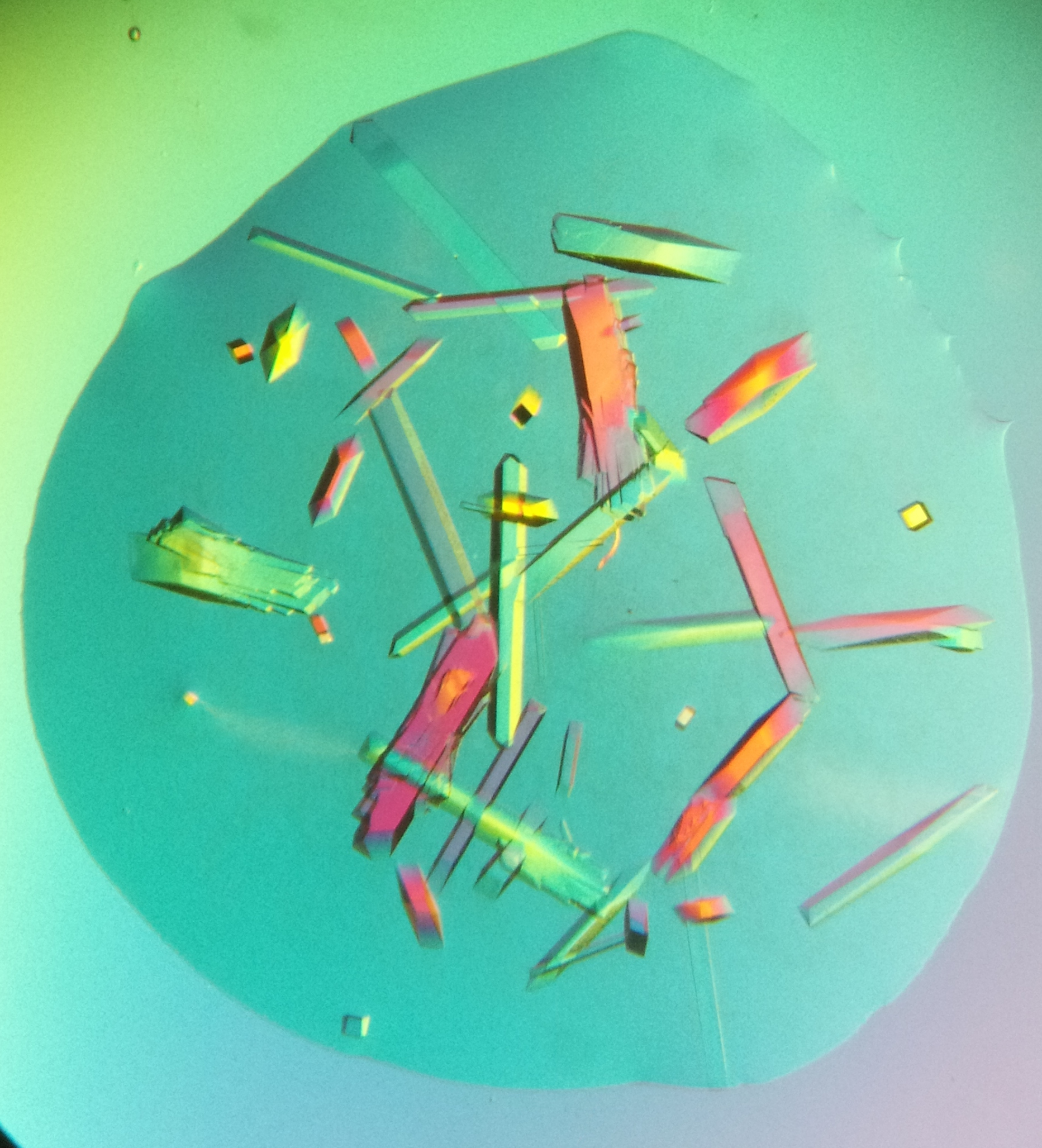 Crystals of enzyme trypsin under Nikon SMZ800 microscope using polarizing lens. Polarizer is a simple solution to distinguish protein crystals from salt crsytals due to their optical differences, saving time and money not measuring salt crystals in diffractometer. Crystals were grown in the presence of benzamidine at room temperature and using seeding technique for obtaining crystals of better quality.